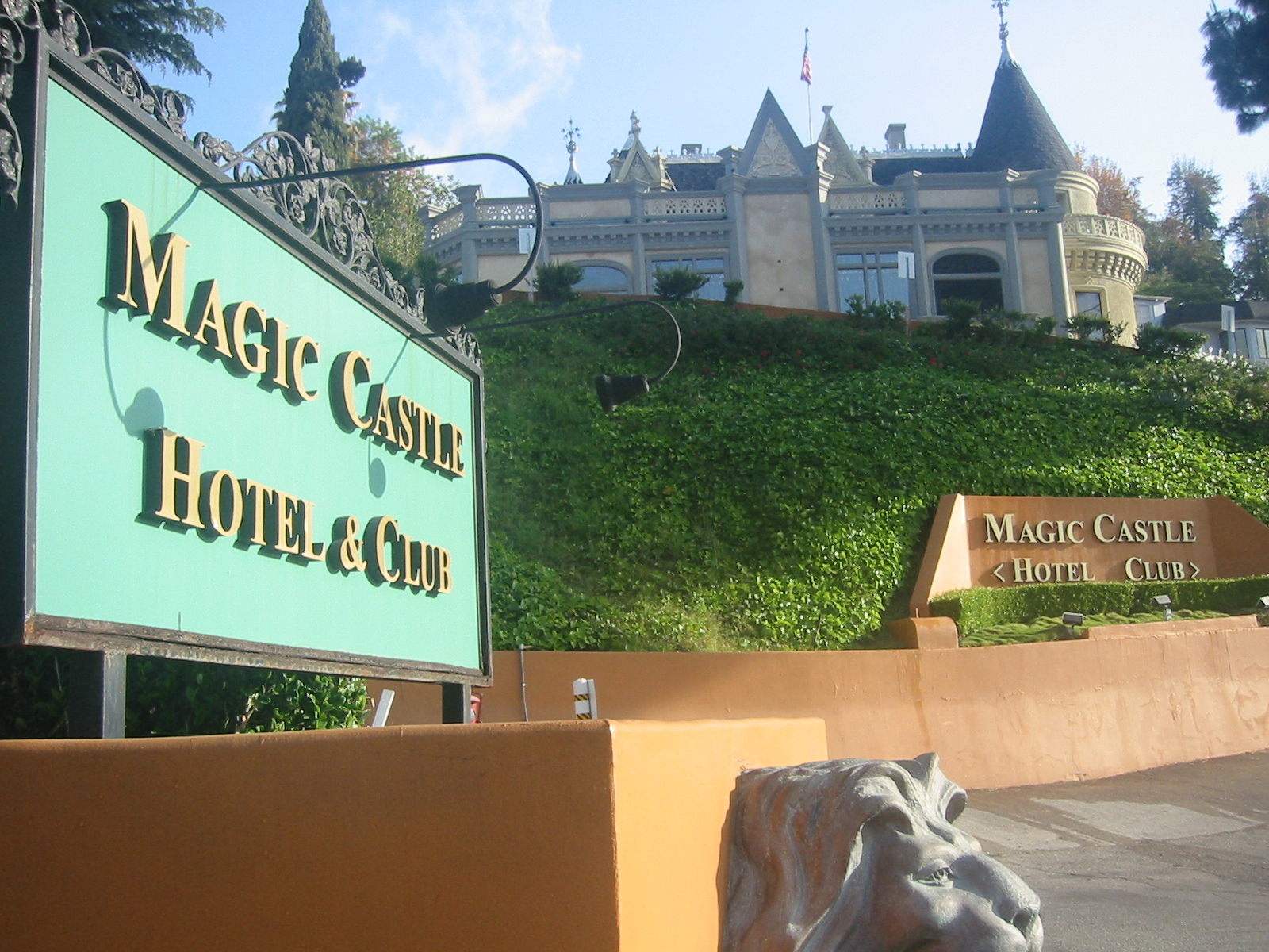 The Magic Castle Hotel and Club in Hollywood, California